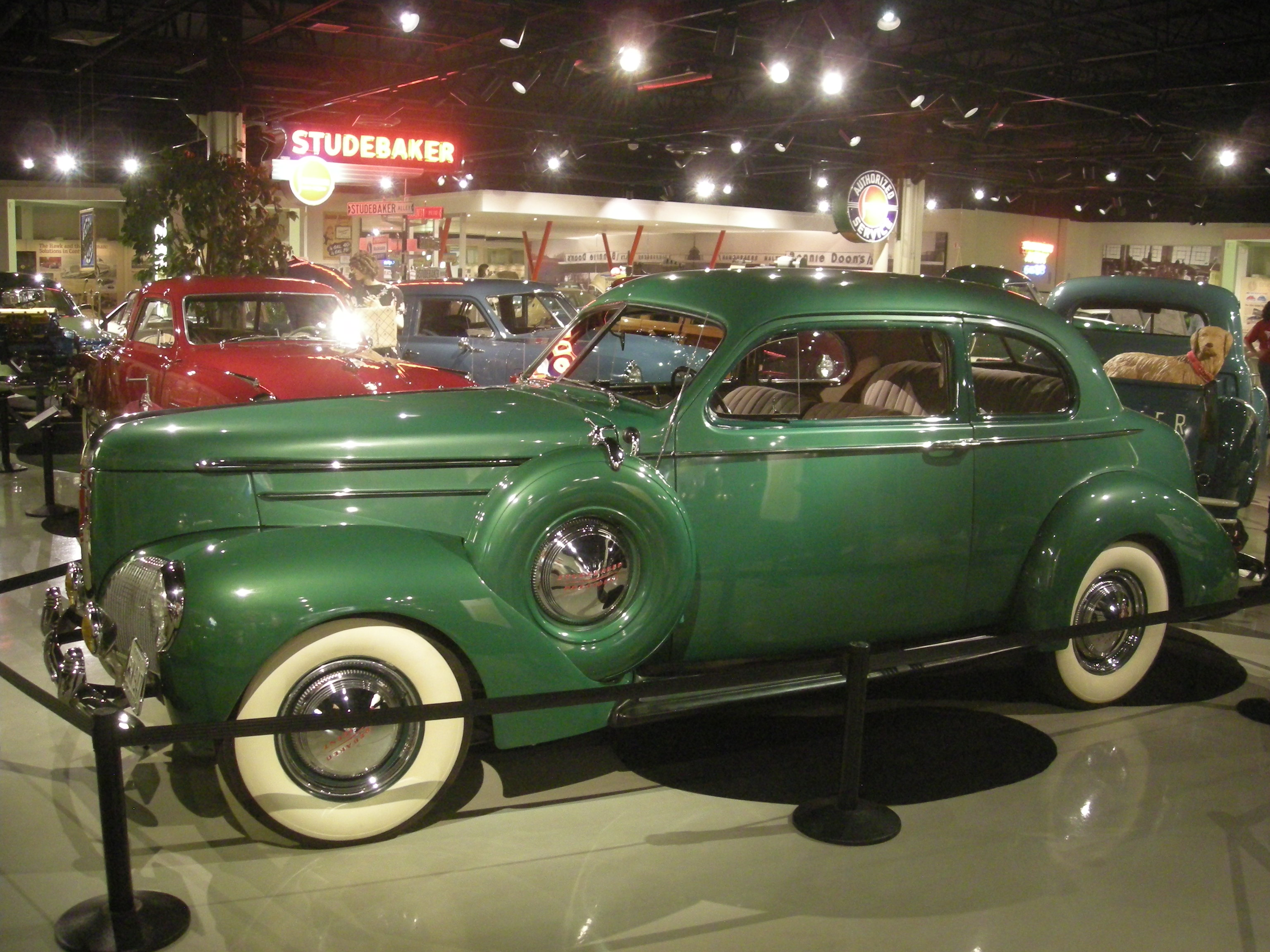 A 1940 Studebaker President Club Sedan at the Studebaker National Museum in South Bend, Indiana (United States).